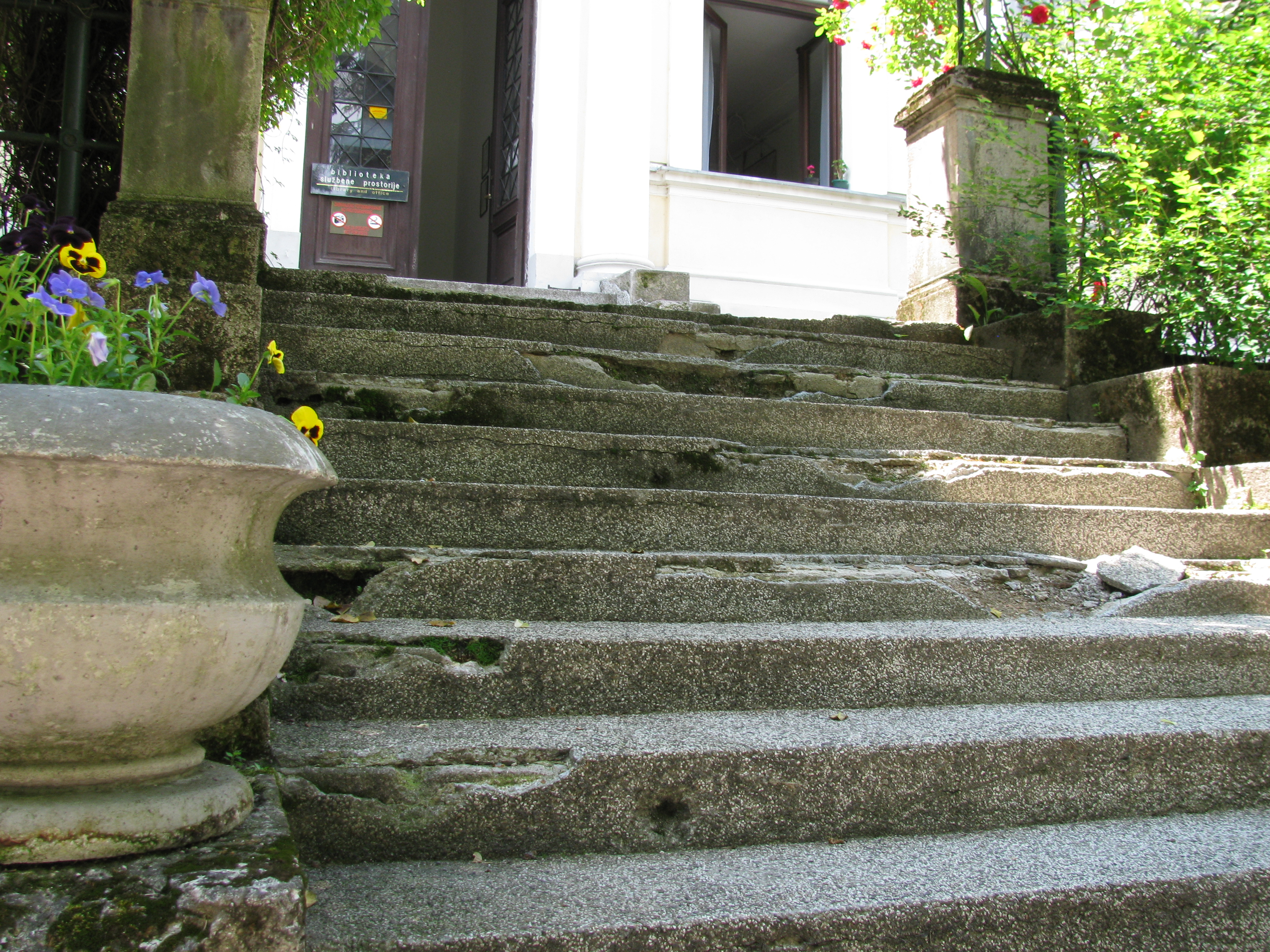 National Museum of Bosnia and Herzegovina structural damage sustained during Siege of Sarajevo (1992-1995). Photo taken in June 2010